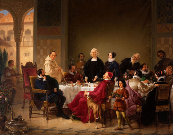 Johann Geyer 1807-1875 Columbus and the Egg, 1847 Oil on canvas, 56 ½” x 72”. Woodmere Art Museum (Philadelphia)